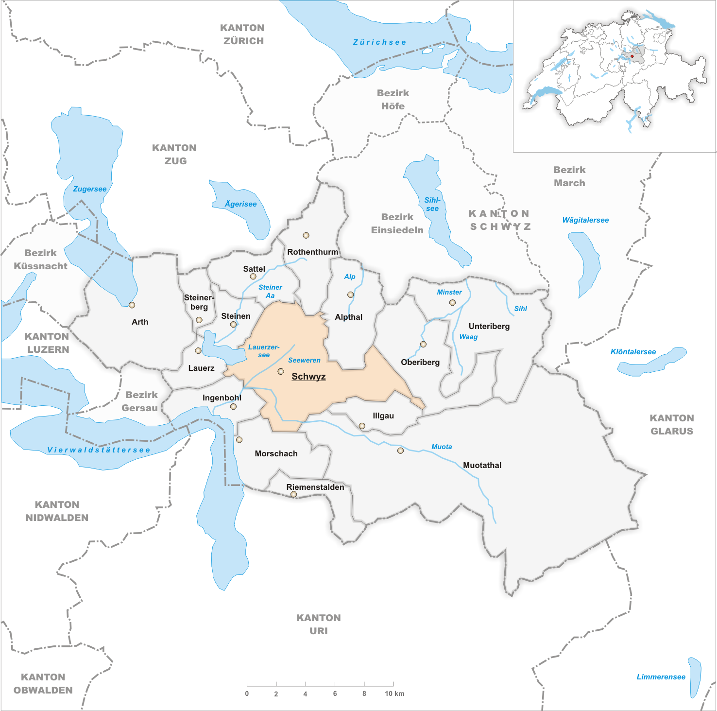 Municipality Schwyz